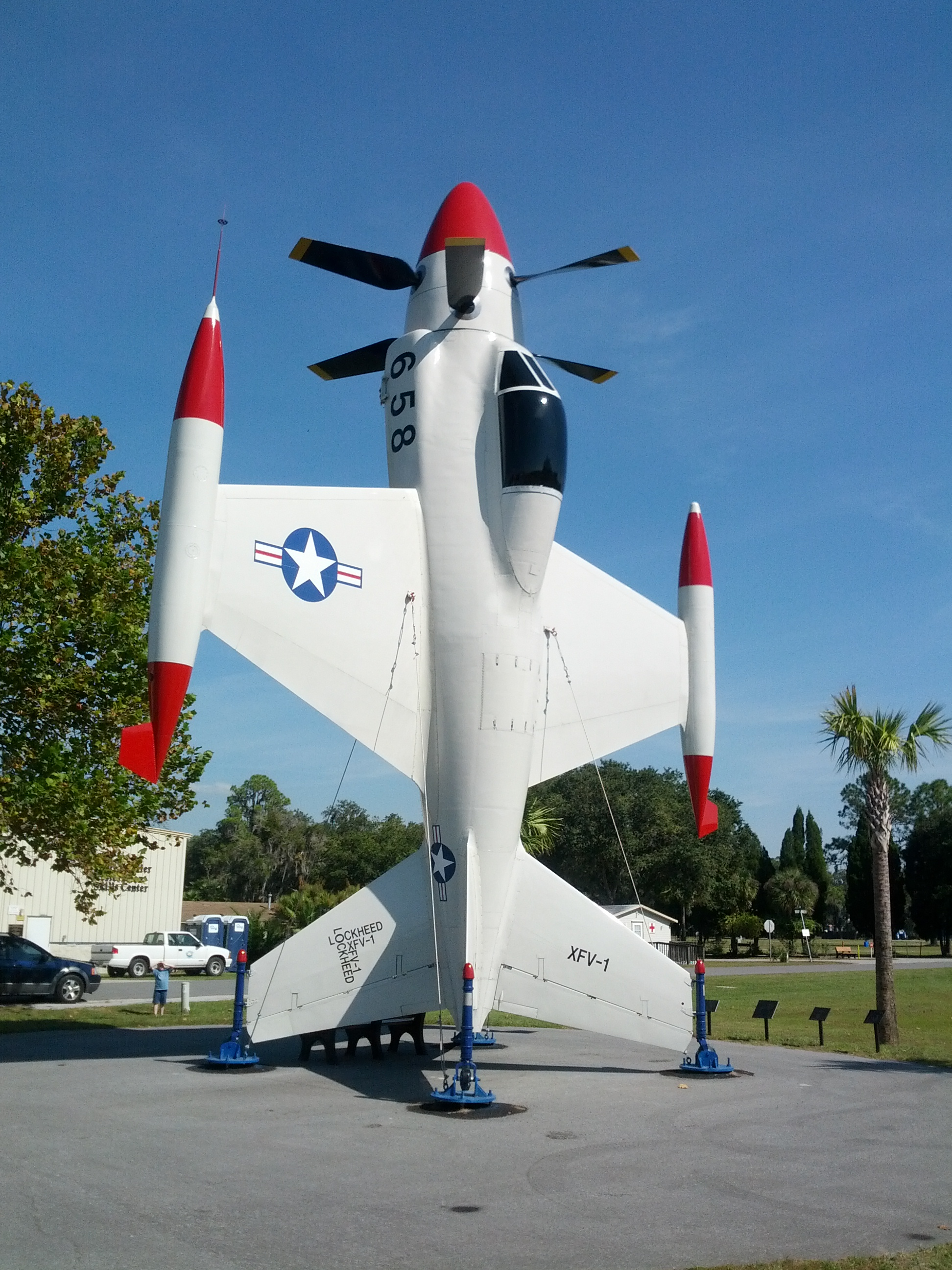 Photograph of the prototype XFV-1 aircraft as displayed at the Florida Air Museum at Sun-n-Fun, Lakeland, FL, on November 4, 2012